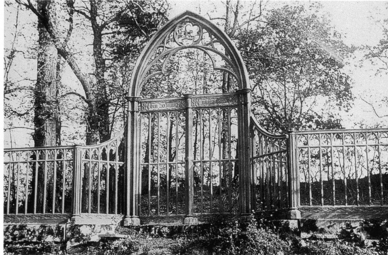 The so called "Luisenpforte", a monument for Queen Luise of Prussia in the park of Paretz near Potsdam, Germany. Destroyed 1920.